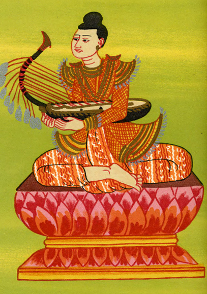 Minye Aungdin nat (spirit), th in the official pantheon of Burmese nats